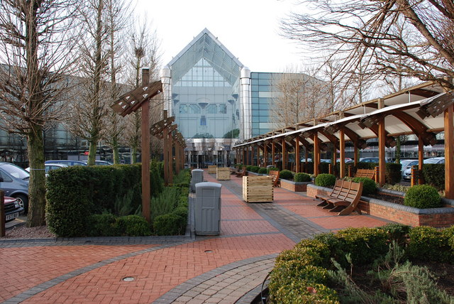 Merry Hill Shopping Centre A view of one of the entrances.